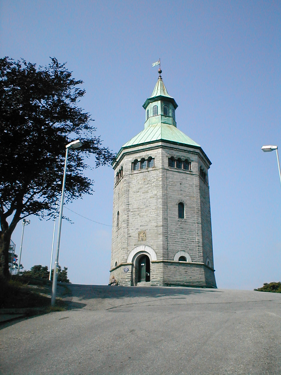 Valberg Tower in Stavanger, formerly used for fire monitoring.